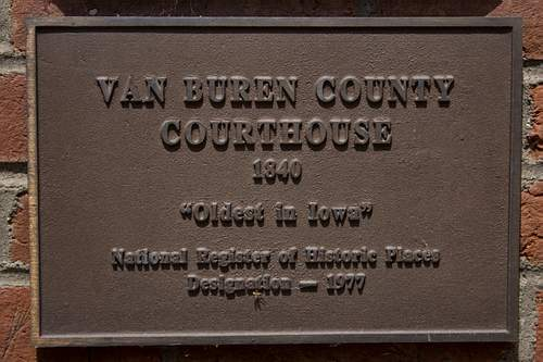 Plaque on the Van Buren County Courthouse. Located in Keosaqua, Iowa the courthouse has been in continuous use since 1840, making it the second oldest in the U.S.